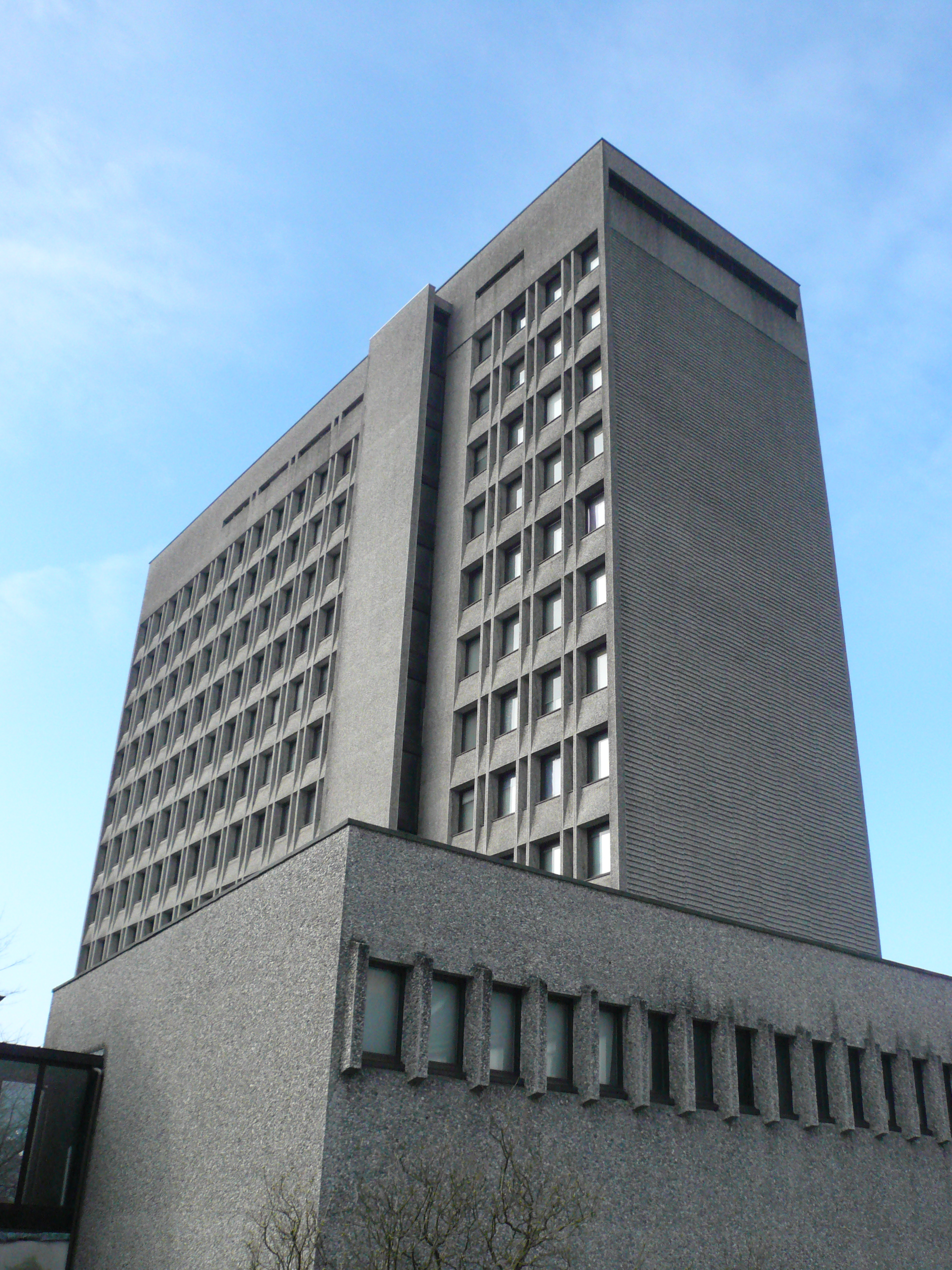 Bergen rådhus